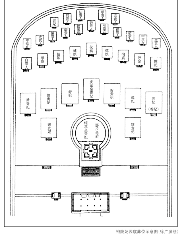 裕陵妃园寝网上图片 The Plan of Consorts Tomb of Yuling of the Qing Dynasty